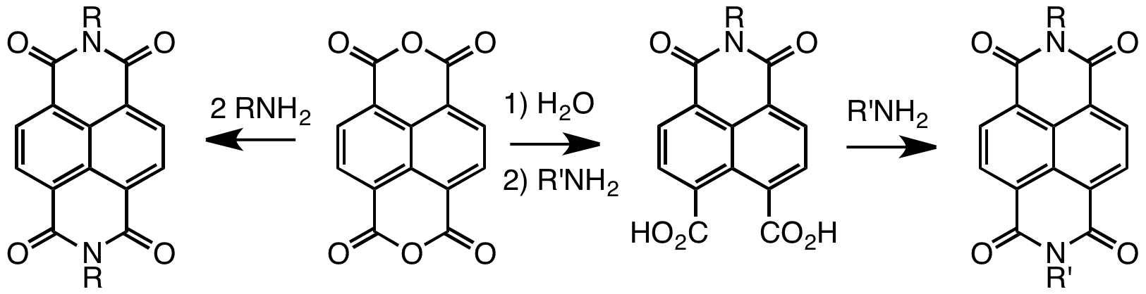 route to NDI dyes